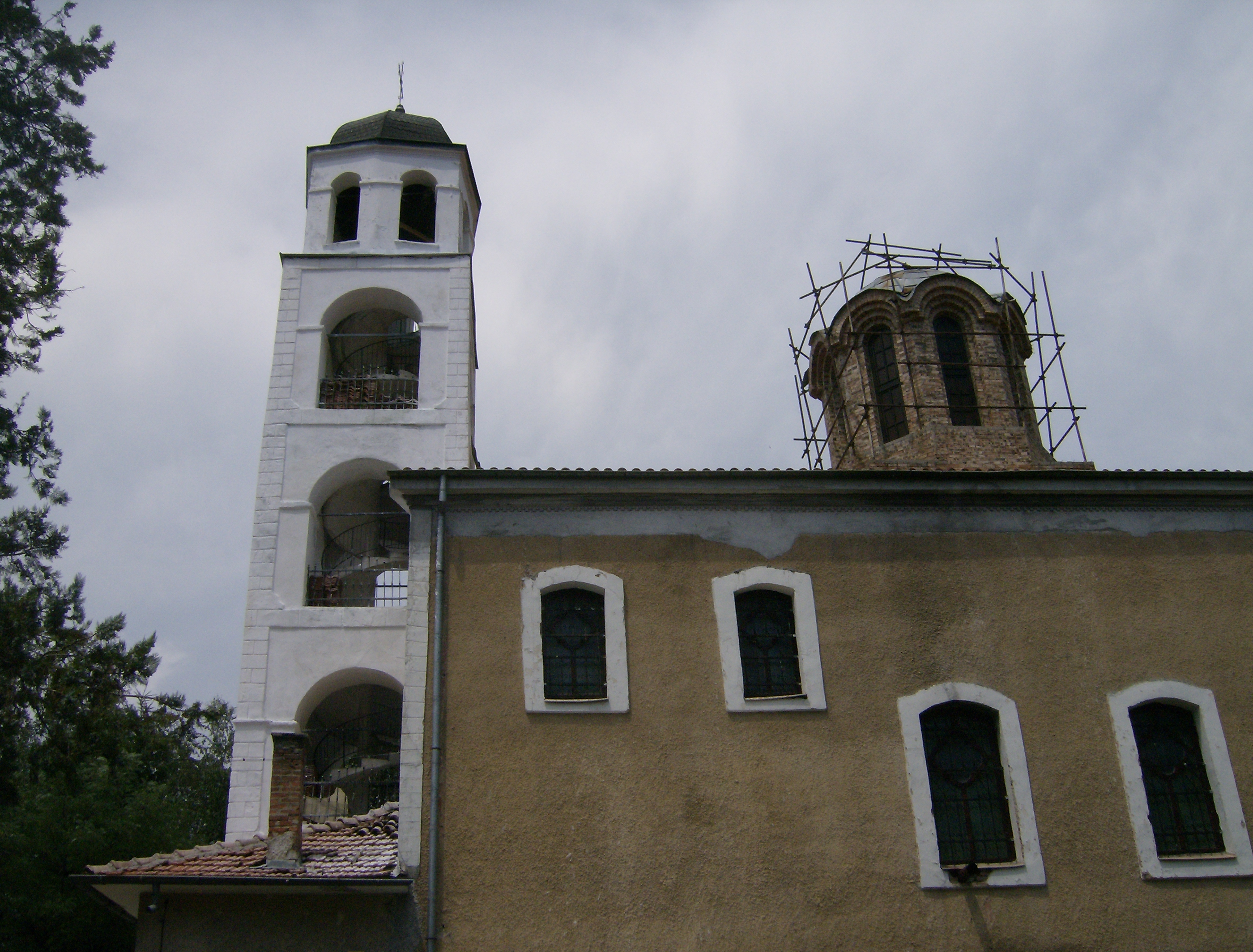 Gotse Delchev Church